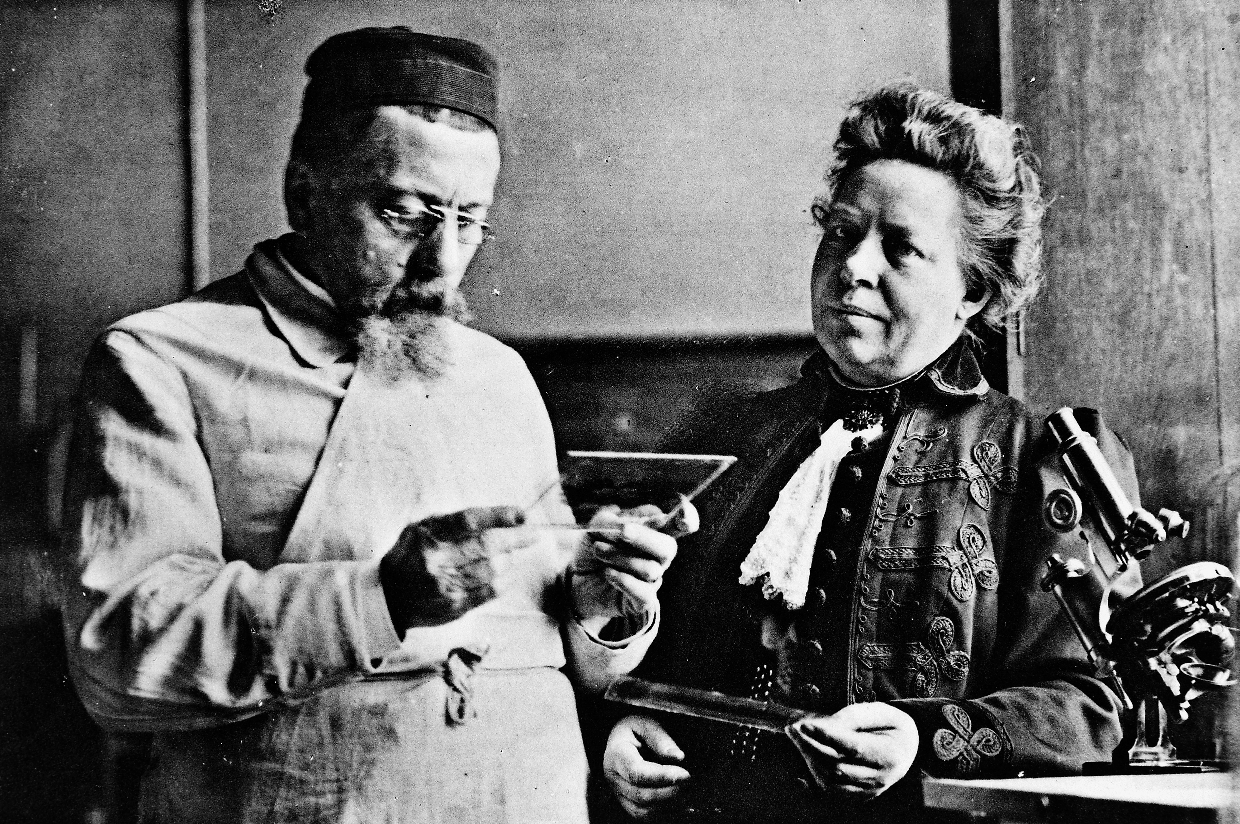 Portrait of Augusta Dejerine at the Hospice de la Salpetriere. Pavillon-Jacques General Collections Keywords: Augusta Dejerine-Klumpke